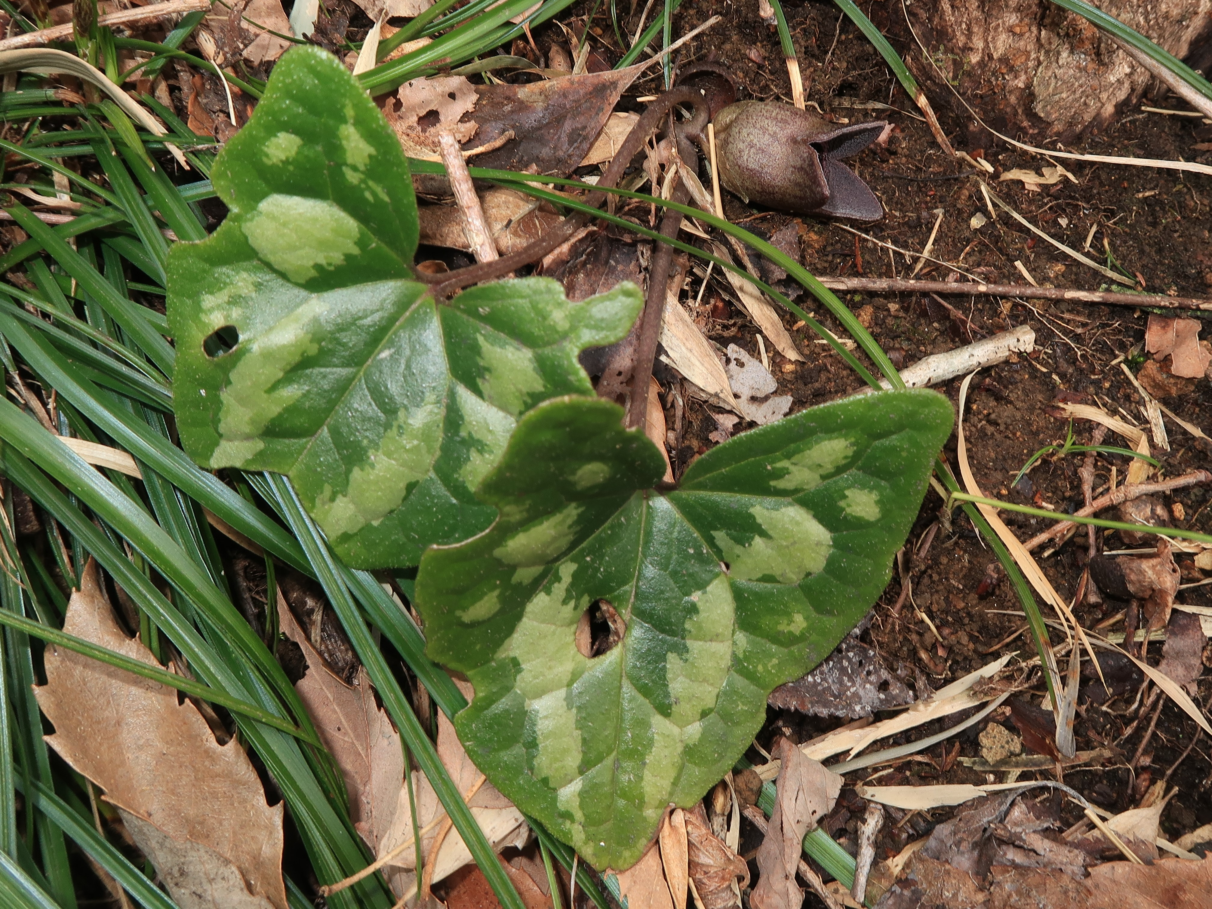 Asarum megacalyx, Niigata city, Niigata pref., Japan